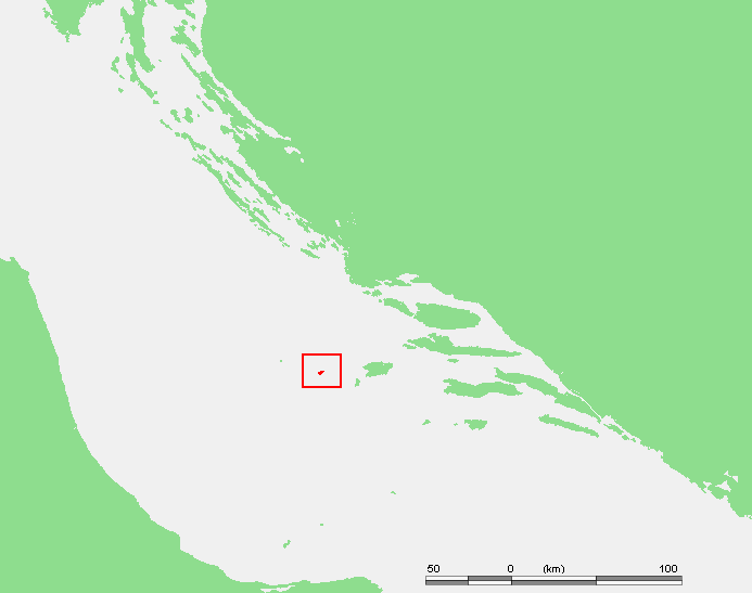 Island of Croatia - Croatia - Svetac.PNG